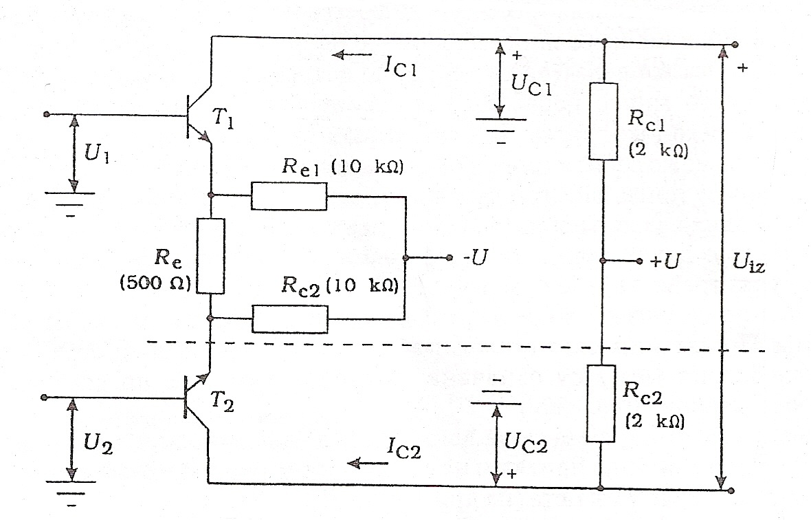 Vertical amplifier